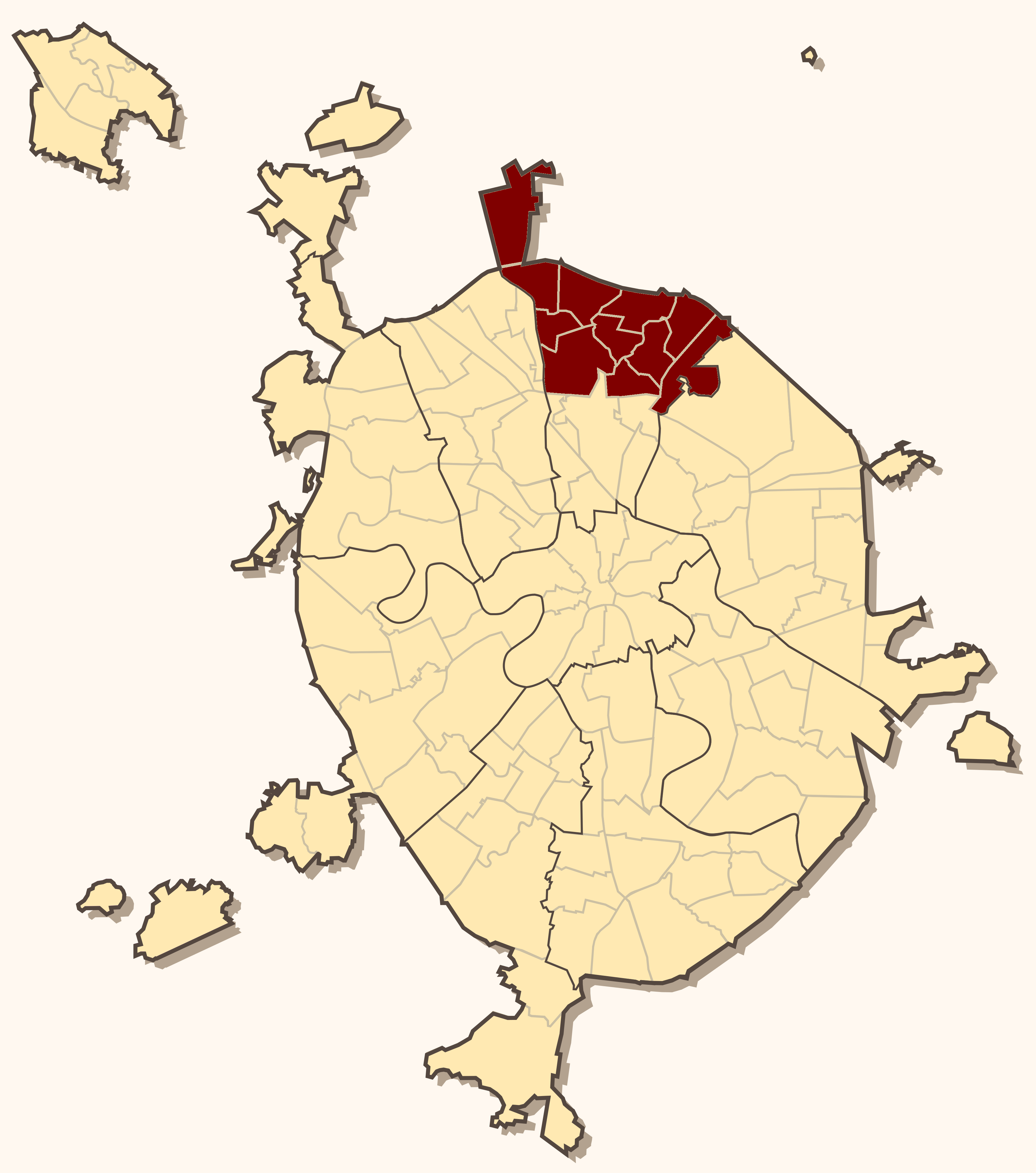 Map of rural dean's district "Sergeevskoe" of Moscow